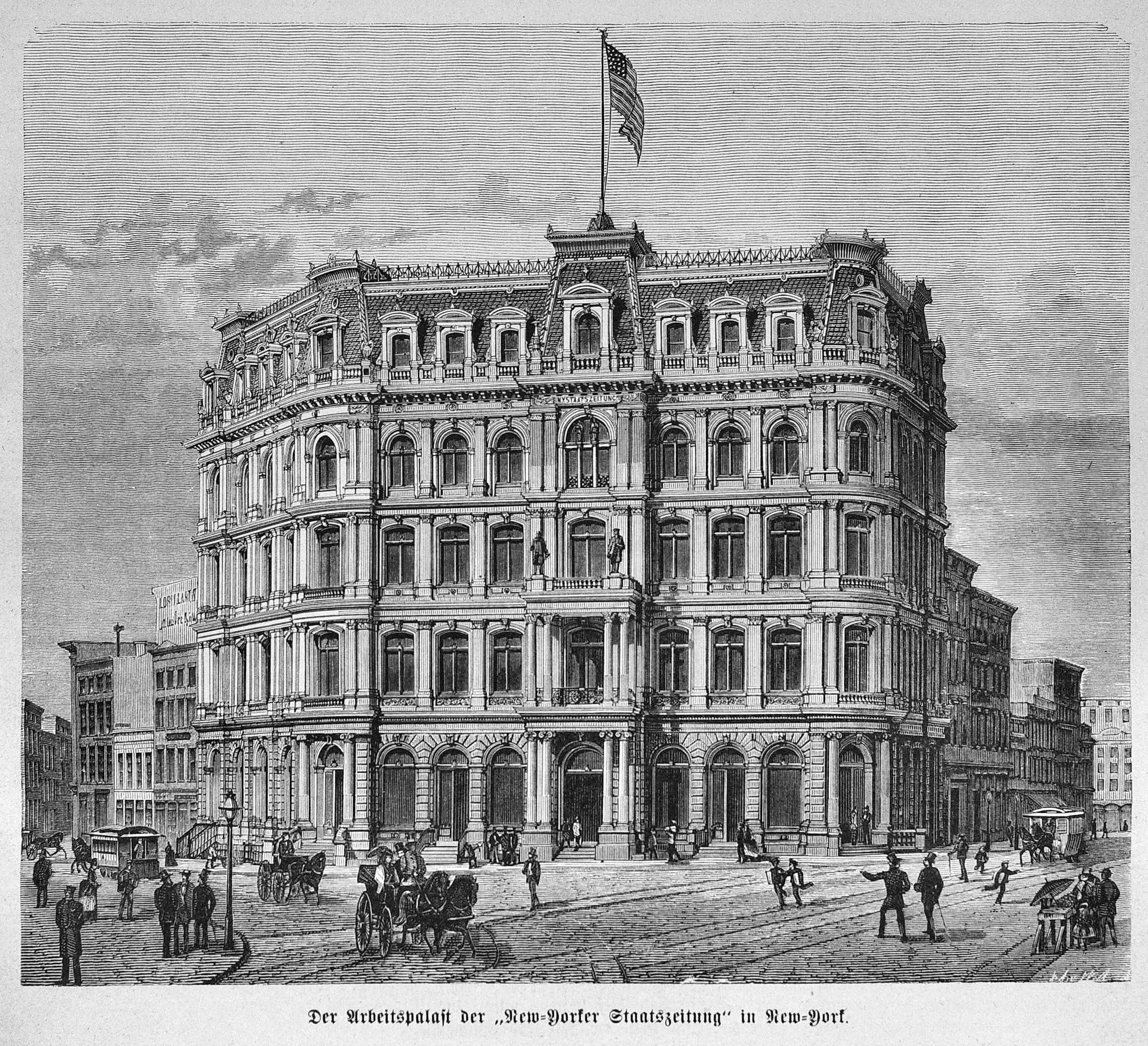 caption: "Der Arbeitspalast der „New-Yorker Staatszeitung“ in New-York."